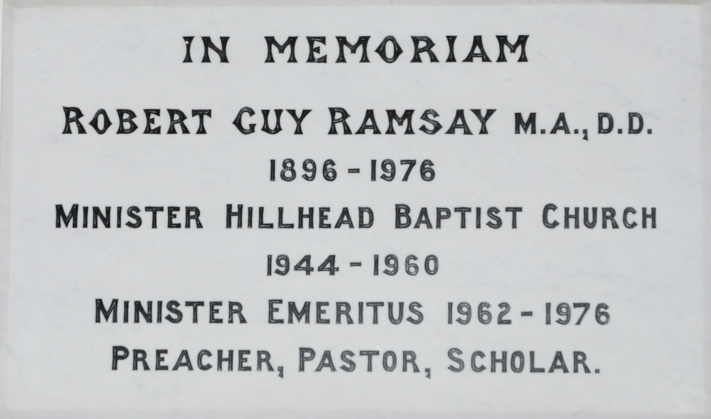 Memorial of Rev R Guy Ramsay in 1970s